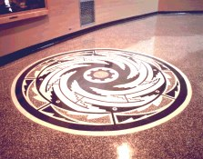 One of Allen Tupper True's designs at Hoover Dam